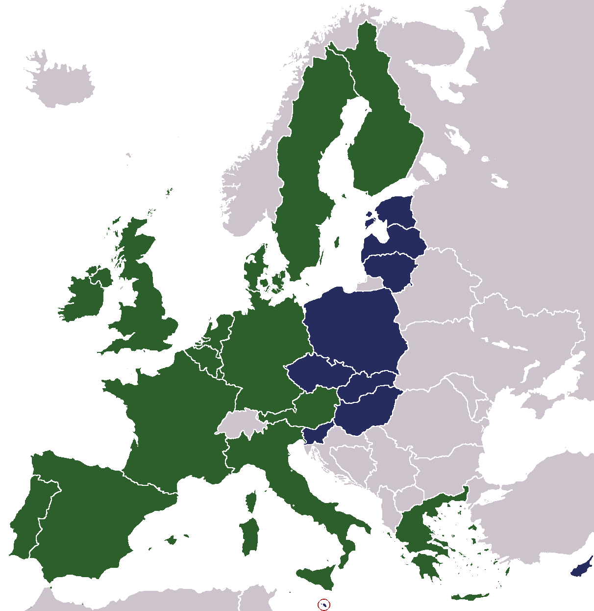 Map showing the states which joined the EU in 2004, along side those already members.